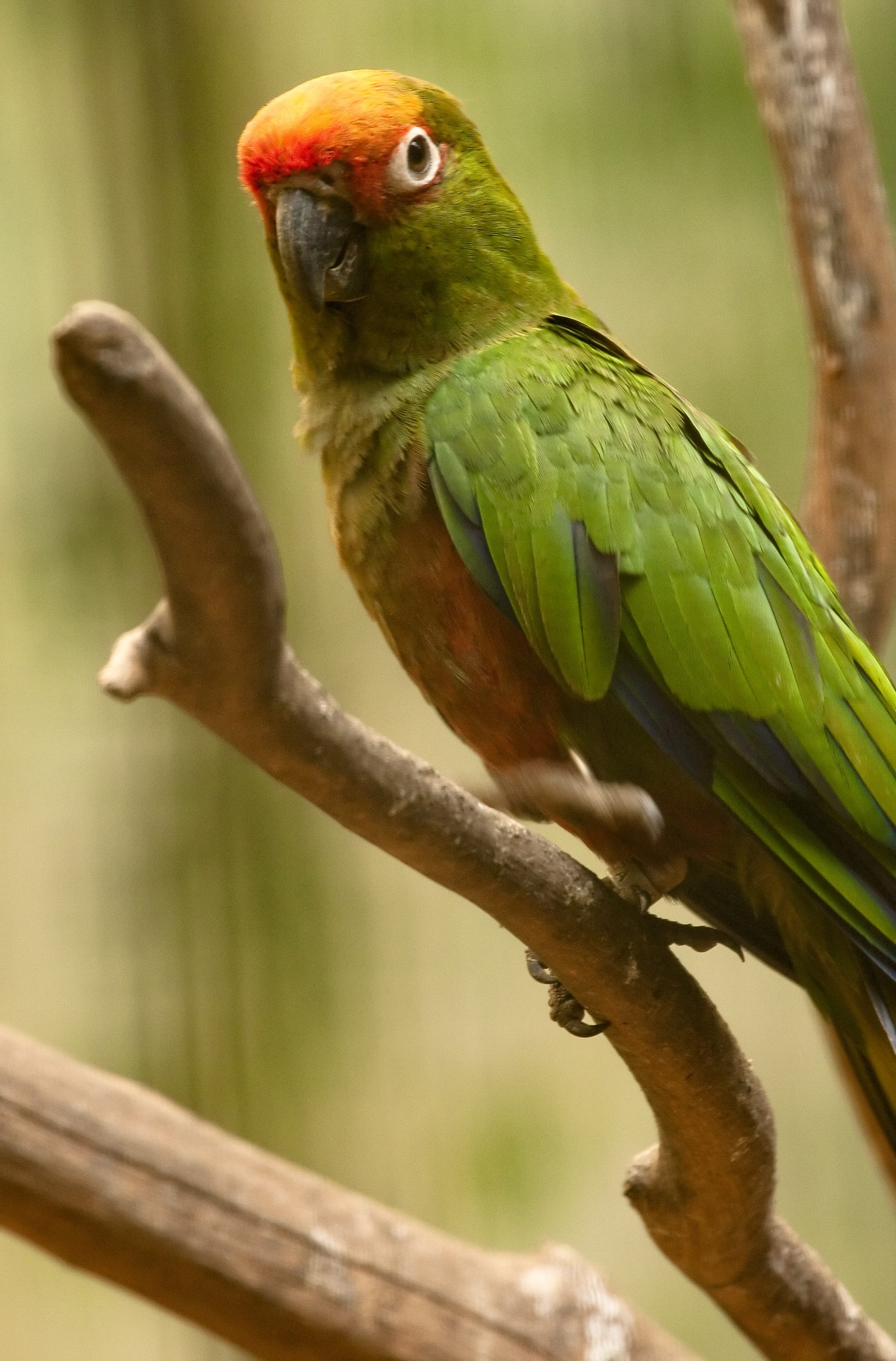 A Golden-capped Parakeet at Jurong Bird Park, Singapore. The Golden-capped Parakeet (Aratinga auricapillus) is a species of parrot in the Psittacidae family. It is found in Brazil and Paraguay. Its natural habitats are subtropical or tropical dry forests, subtropical or tropical moist lowland forests, dry savanna, and plantations. It is threatened by habitat loss.